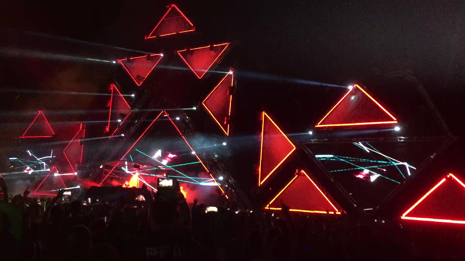 Hardwell at his final United-We-Are-show at Hockenheimring in Germany.